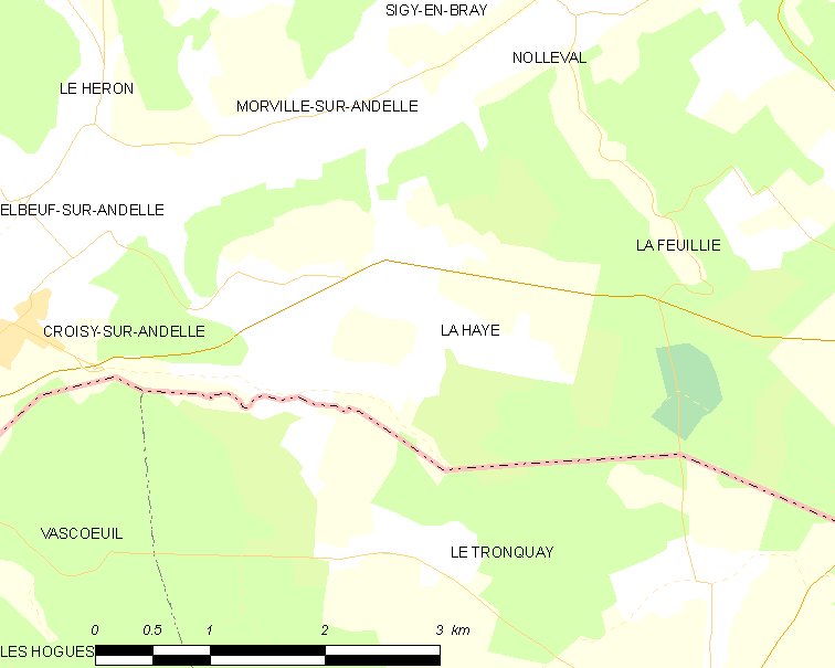 Map of French municipality La Haye